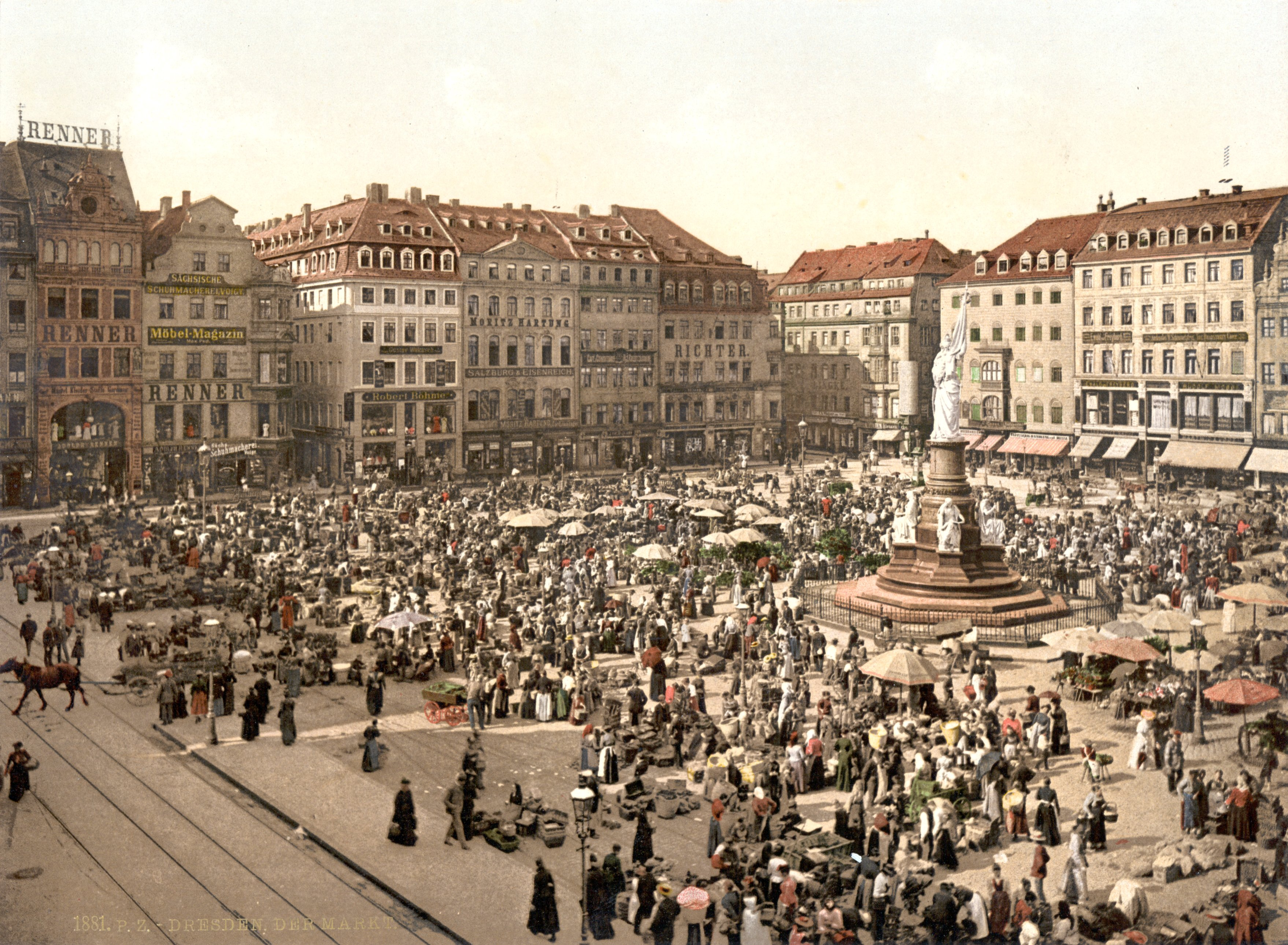 Dresden (Saxony, Germany) - Altmarkt (Old Market Place)